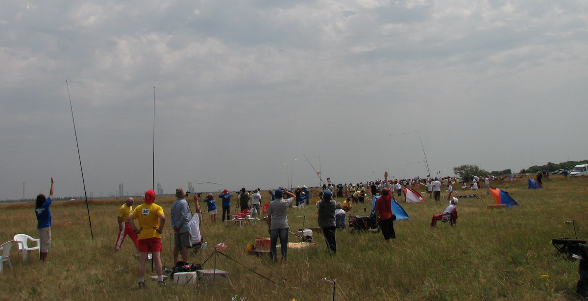 FAI F1 FreeFlight Championship in Odessa - UKRAINE F1B Day 5th Round by Ismail Sarioglu